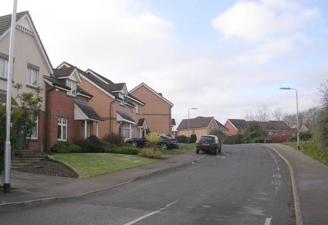 McLaren Fields - Lower Town Street, Bramley. Built on the site of Bramley Rugby League Club's former ground.